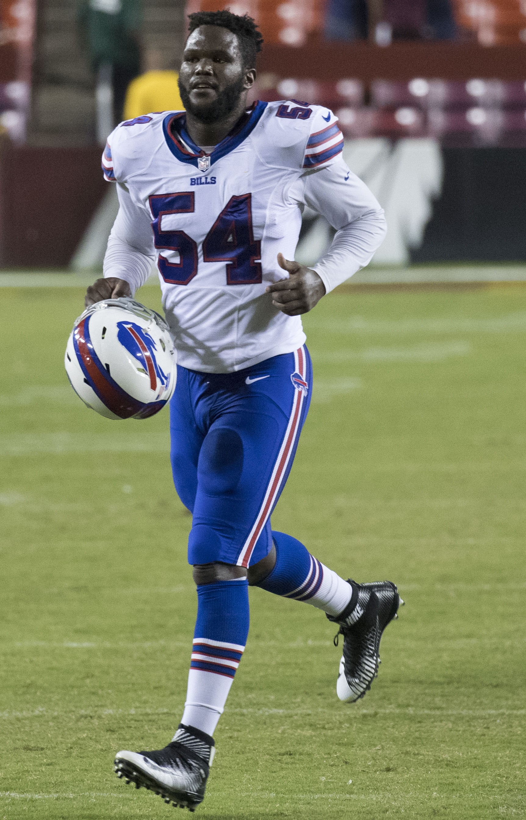 Bills at Redskins 8/26/16